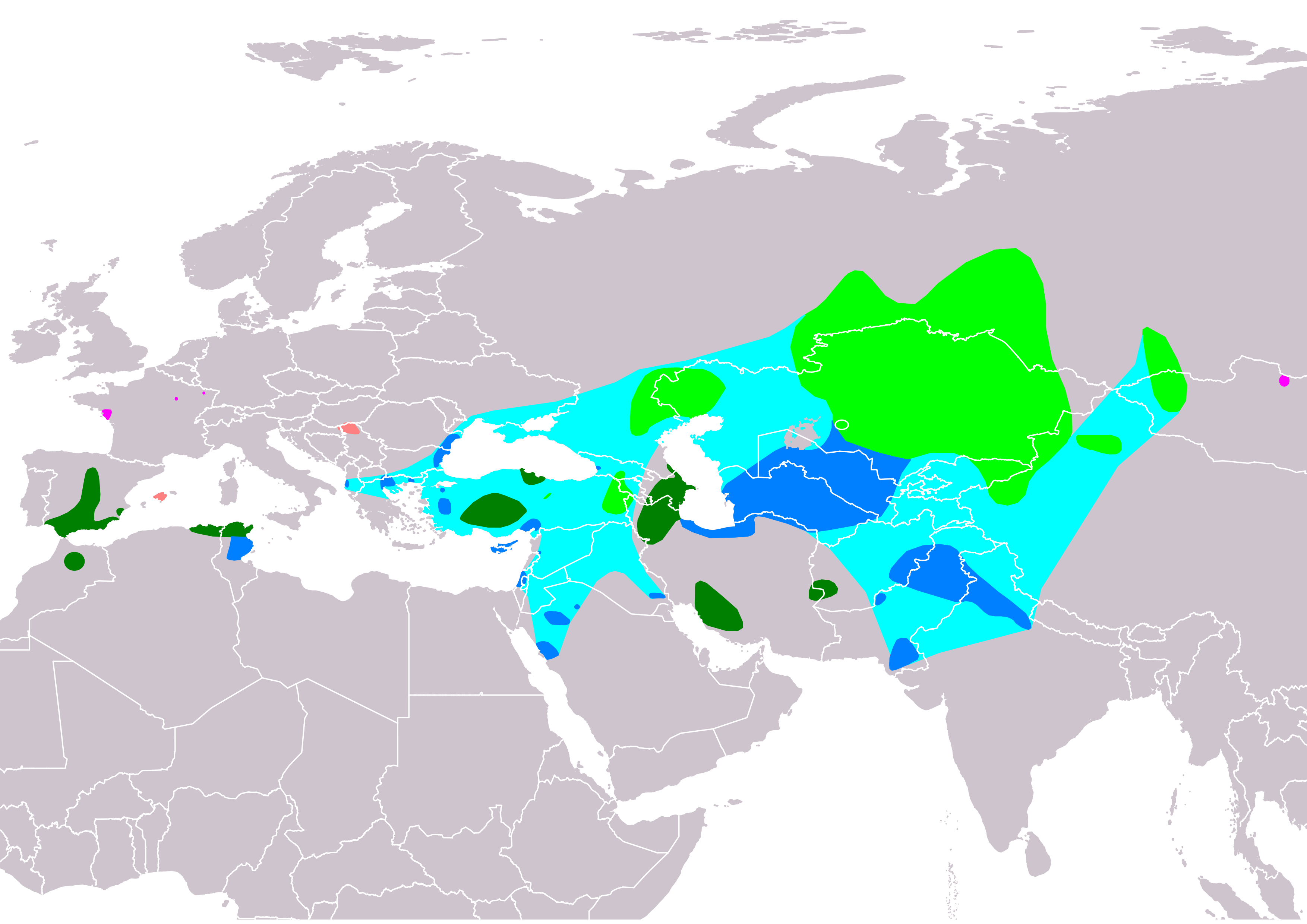 Map of the white-headed duck (Oxyura leucocephala) according to IUCN ver. 2018.2 Legend: Extant, breeding (#00ff00), Extant, resident (#008000), Extant, passage (#00ffff), Extant, non-breeding (#007fff), Extant & Vagrant (seasonality uncertain)(#FF00FF), Probably extinct (#FF8080)